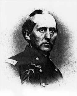 Civil War Union Army Officer Levin Crandell. He served during the Civil War as Colonel and commander of the 125th New York Volunteer Infantry.